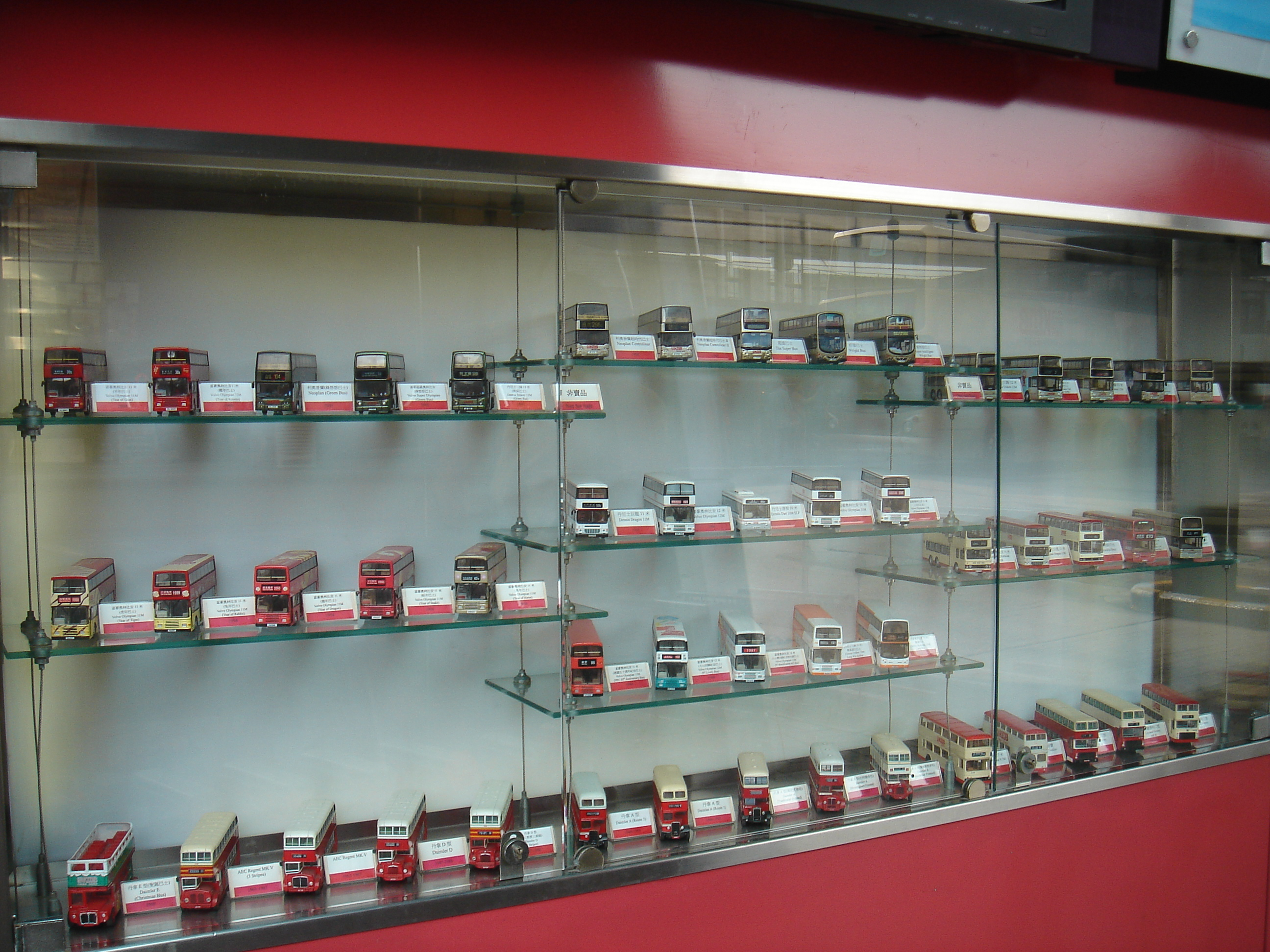 Historical bus models from past to present, on display at KMB Tsim Sha Shui Customer Service Centre, Tsim Sha Tsui, Kowloon, Hong Kong.